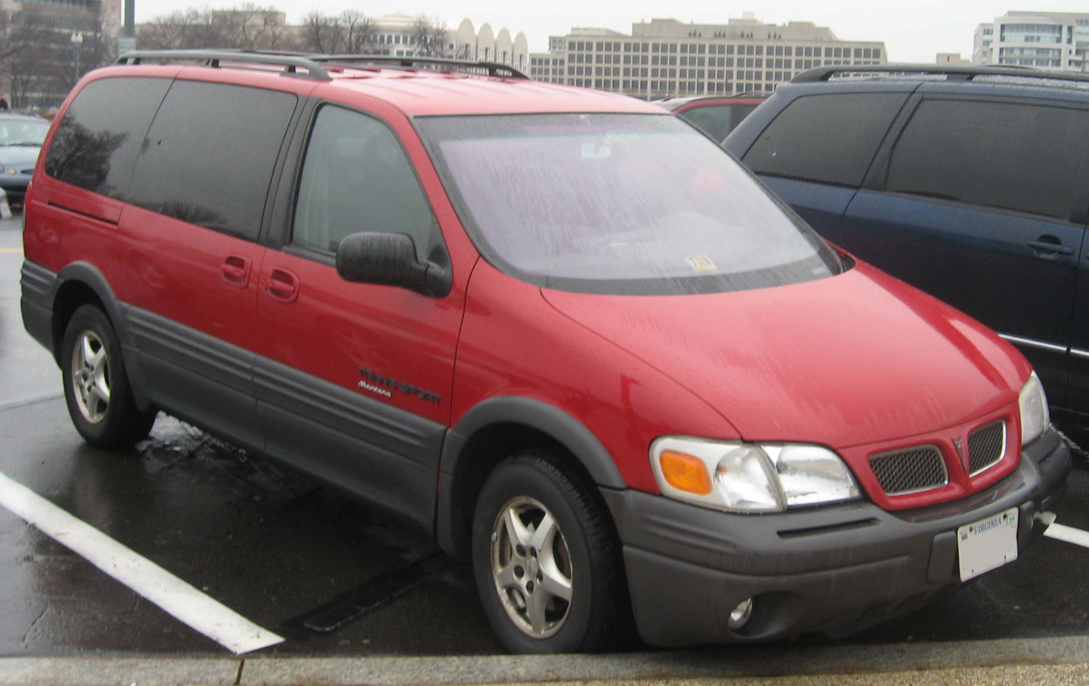 1998 Pontiac Trans Sport Montana photographed in Washington, D.C., USA.